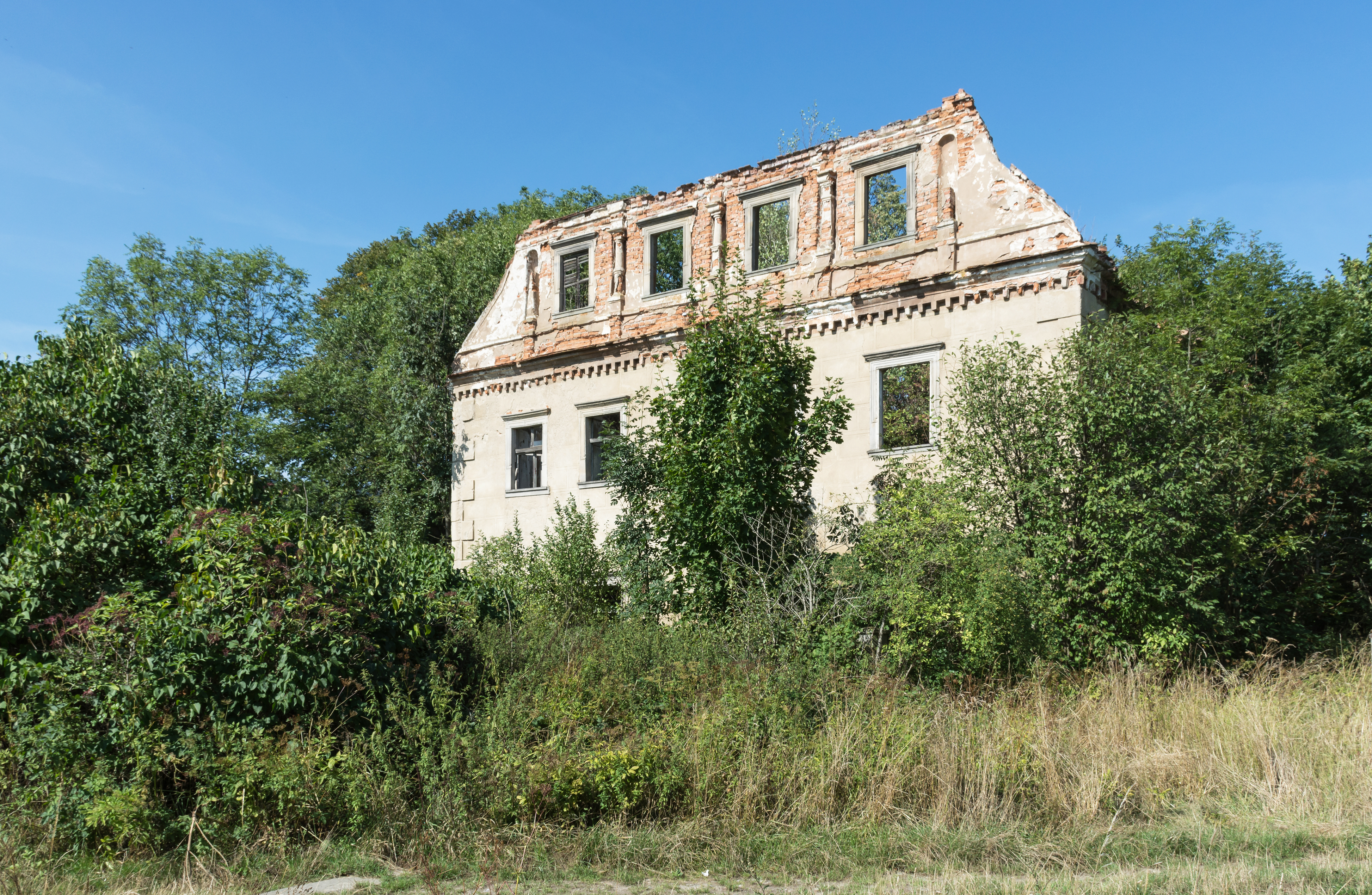 Upper Manor in Stara Łomnica